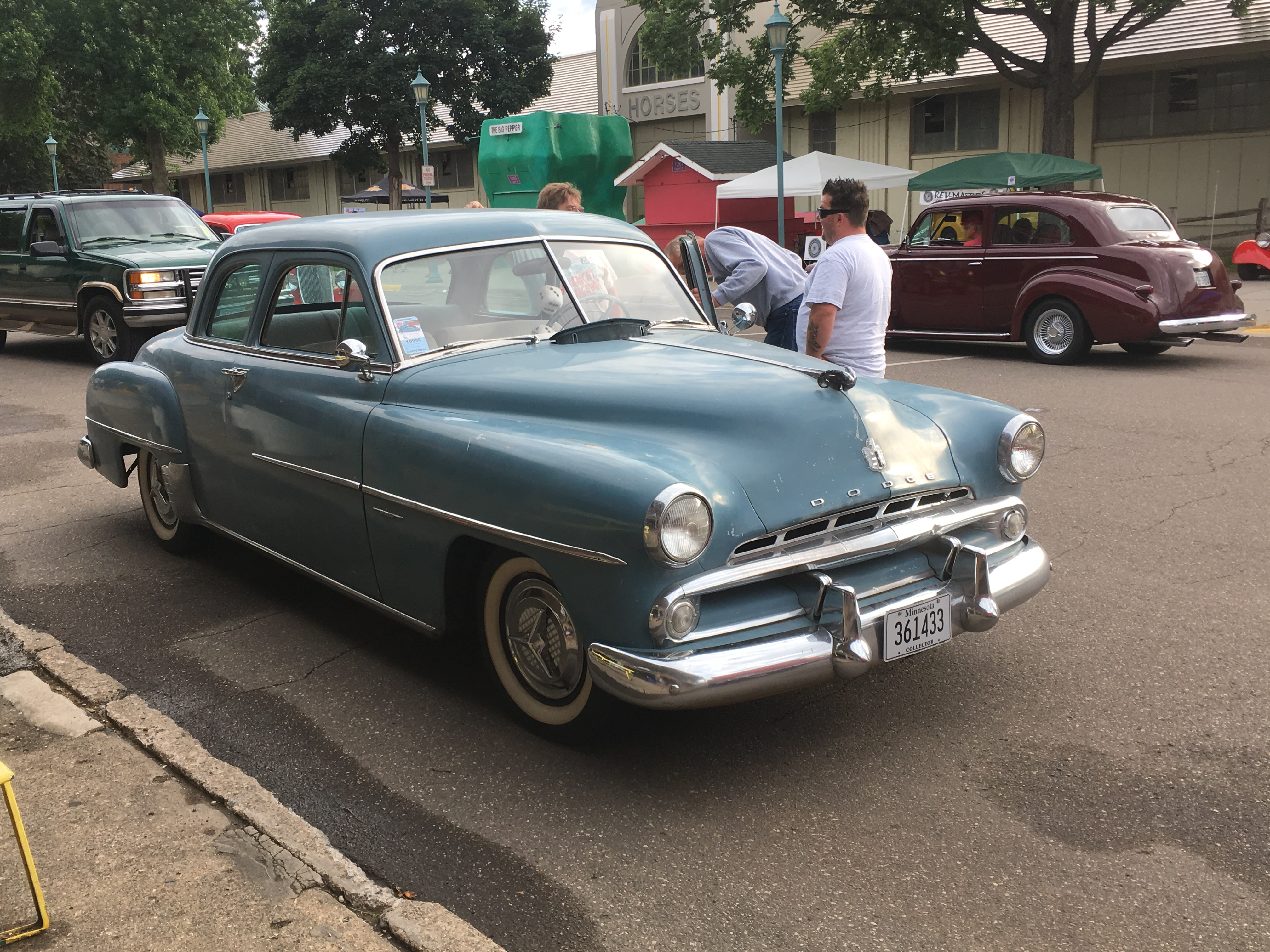 1952 Dodge Coronet Club Coupe. I had two rechargeable camera batteries with me for the MSRA excursion, Friday & Saturday I used up both of them and one of them on Sunday. I resorted to using my phone camera to capture images on my trips back to the parking lot to switch out the battery. I only had one charger, so I had to wake up at 1 a.m. to switch out the battery in the charger, to get both ready for the next day. Minnesota Street Rod Association (MSRA) “BACK TO THE 50′s” 44th Annual Car Show June 23-25, 2017 Minnesota State Fairgrounds St. Paul Minnesota Click here for previous "Back to the 50's" pictures.. Click here for more car pictures at my Flickr site. Or here for my Car Crazy Tumblr site. Or on Twitter @DVS1mn.